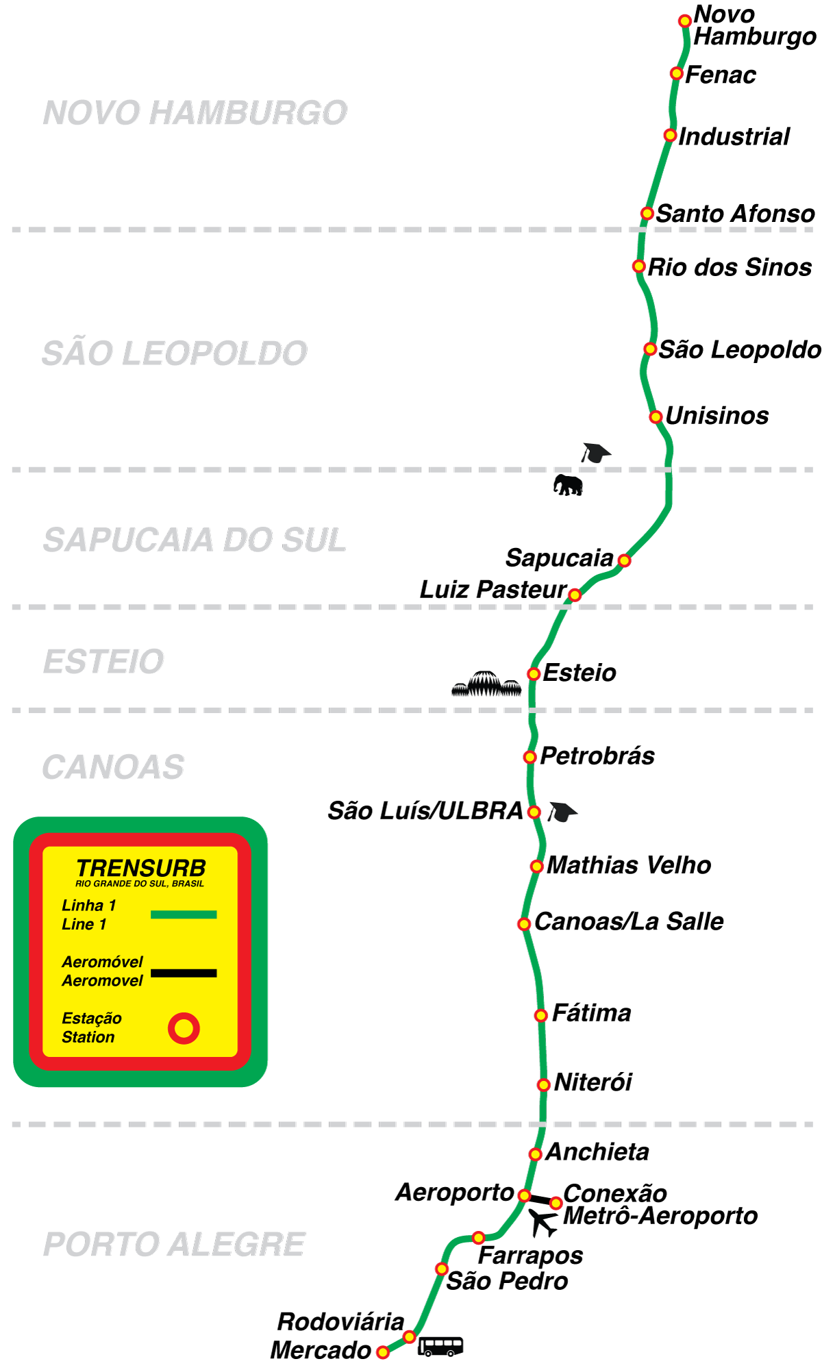 Mapa das estações da TRENSURB/Metrô de Porto Alegre. Map of the TRENSURB/Porto Alegre Metro system. I drew this map.